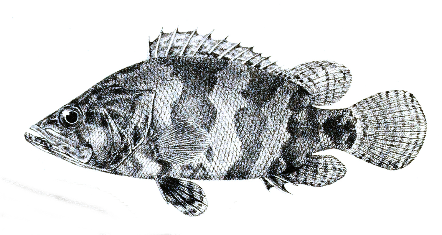 The species names / identity need verification. The original plates showed the fishes facing right and have been flipped here. Nandus marmoratus